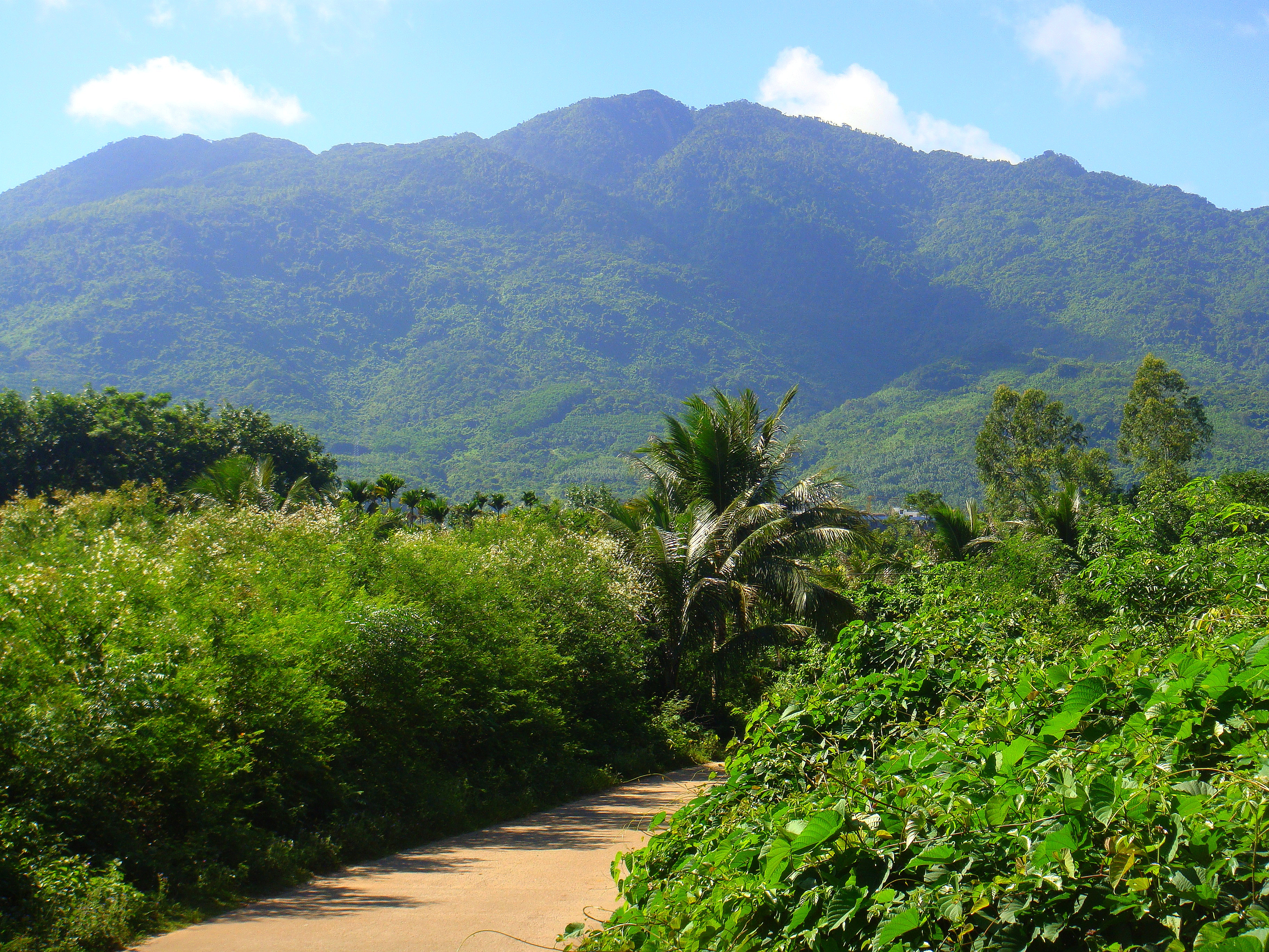 Near Xinlong, Hainan, China